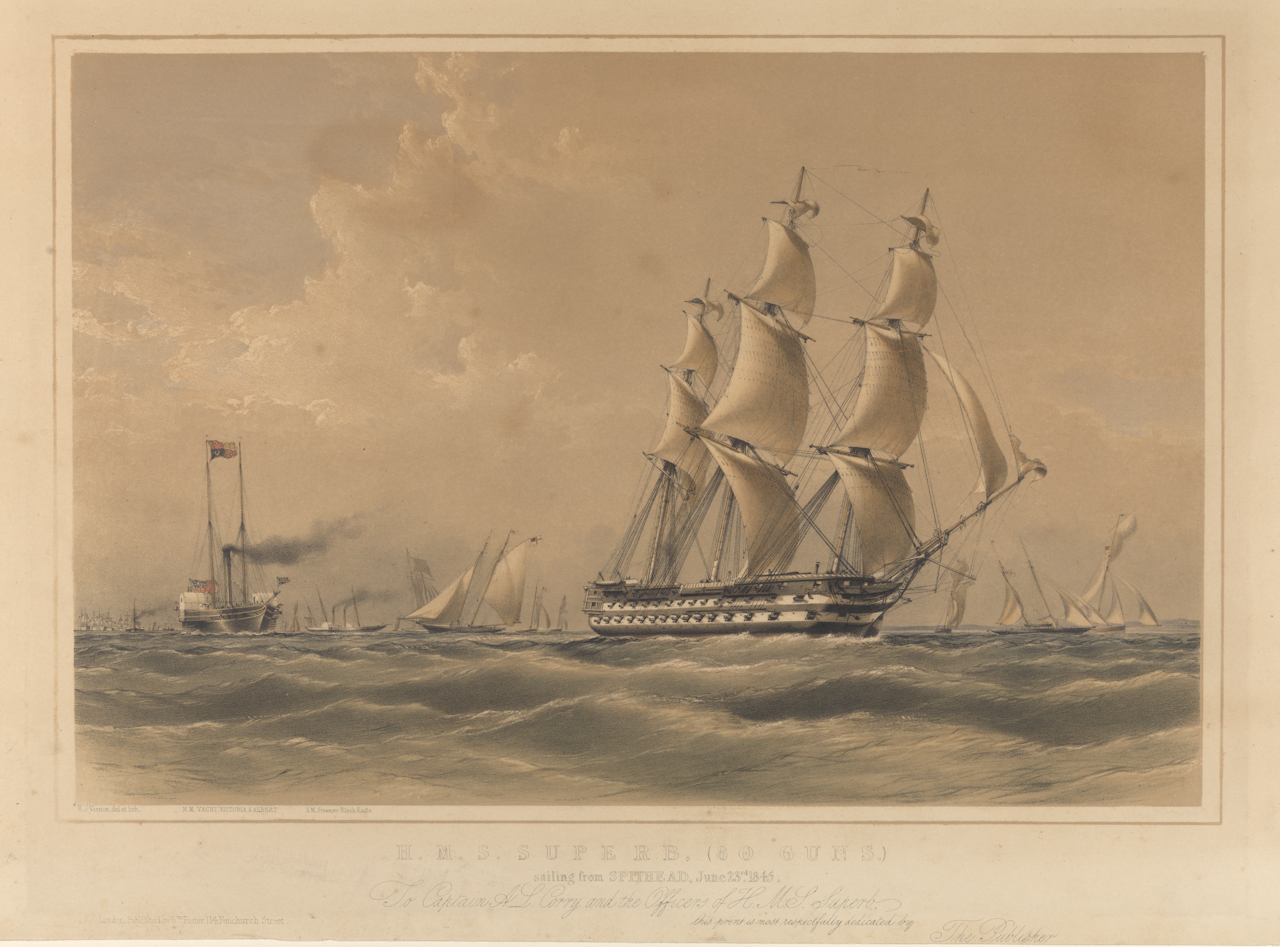 H.M.S Superb, (80 guns) sailing from Spithead, June 23rd 1845...(shows H.M.Y. Victoria & Albert and H.M.Steamer Black Eagle) Print H.M.S Superb, (80 guns) sailing from Spithead, June 23rd 1845...(shows H.M.Y. Victoria & Albert and H.M.Steamer Black Eagle)